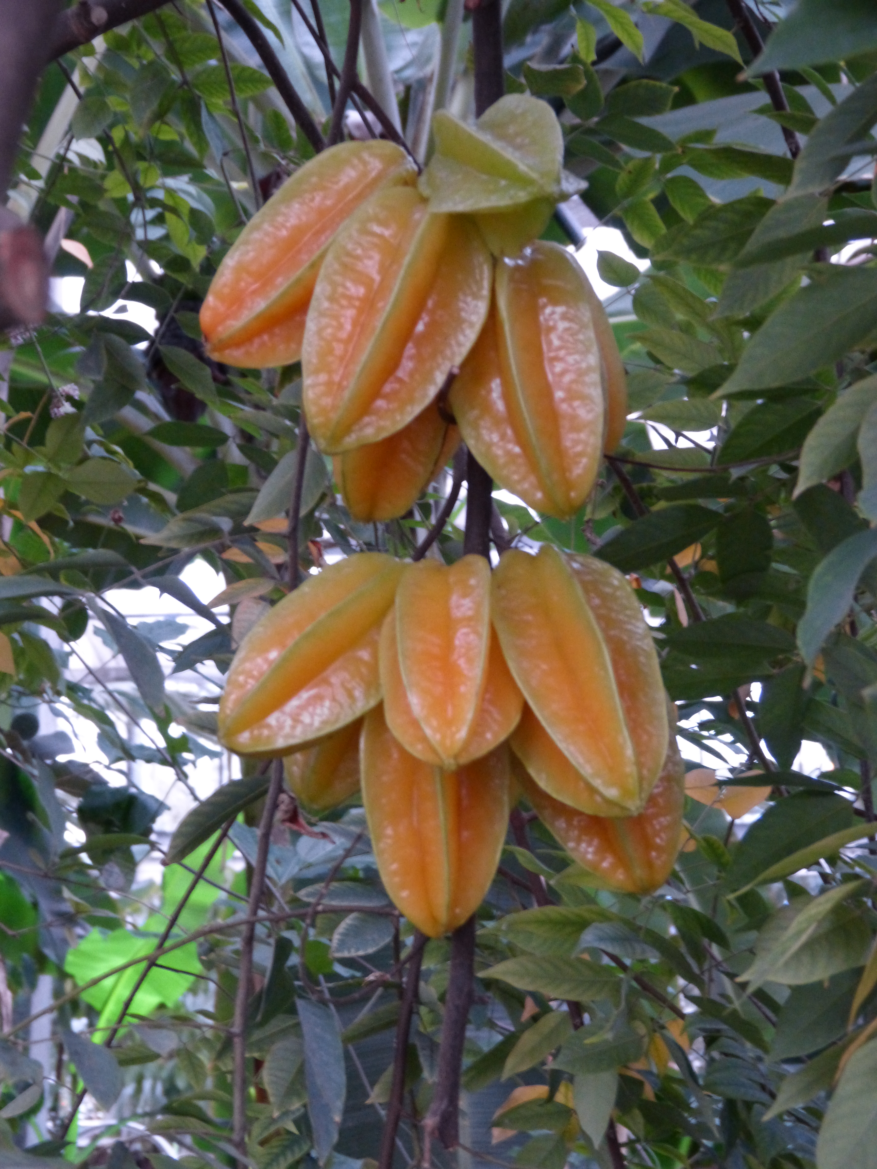 Fruit of Averrhoa carambola (starfruit) at the Tropenhaus in Frutigen.